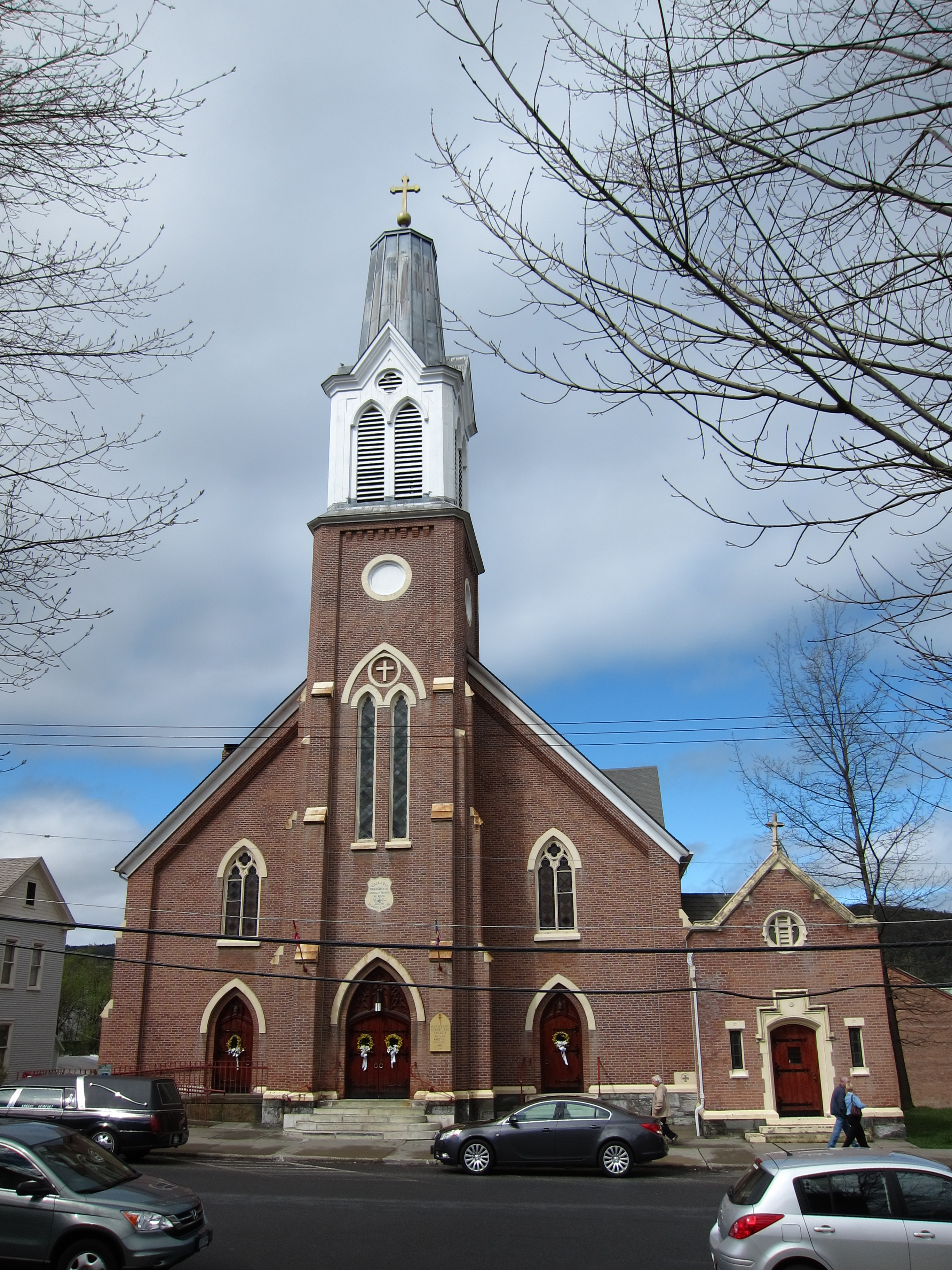 Immaculate Conception Parish (Hoosick Falls, New York), exterior view from across Main Street